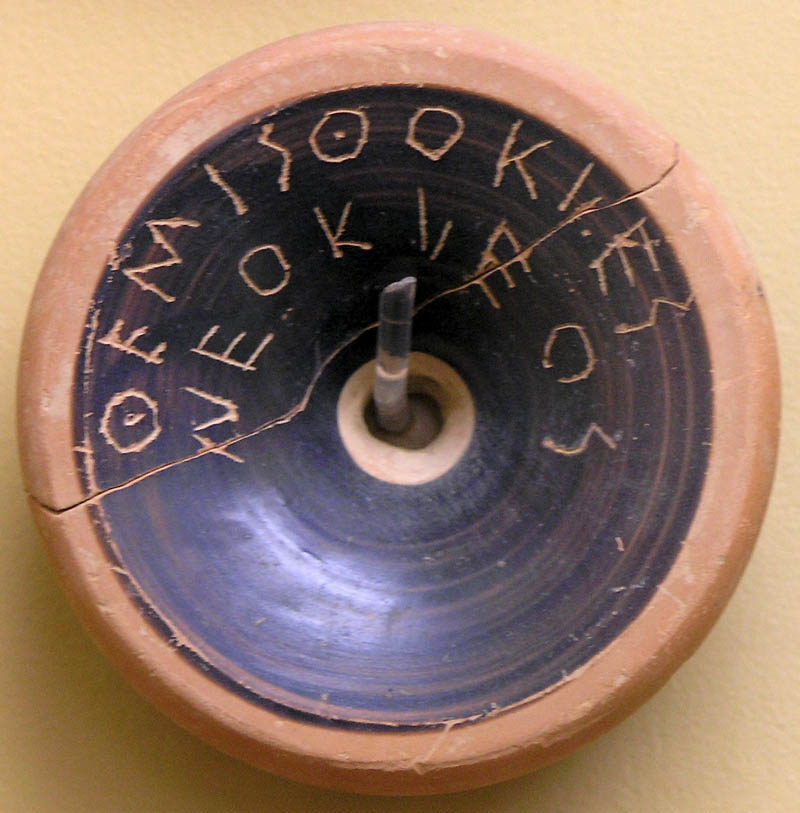 This ostrakon from 482 BC was recovered from a well near the Acropolis. The Athenians had a particular voting technique to remove a citizen from the community. If ostracized, the person was exiled for ten years, and after that time could return and have their property restored. Themistocles was a great Athenian general, but the Spartans worked to have him exiled. After his ostracism, he moved to Persia, Athen's enemy, where King Artaxerxes I made him governor of Magnesia. Ancient Agora Museum in Athens.